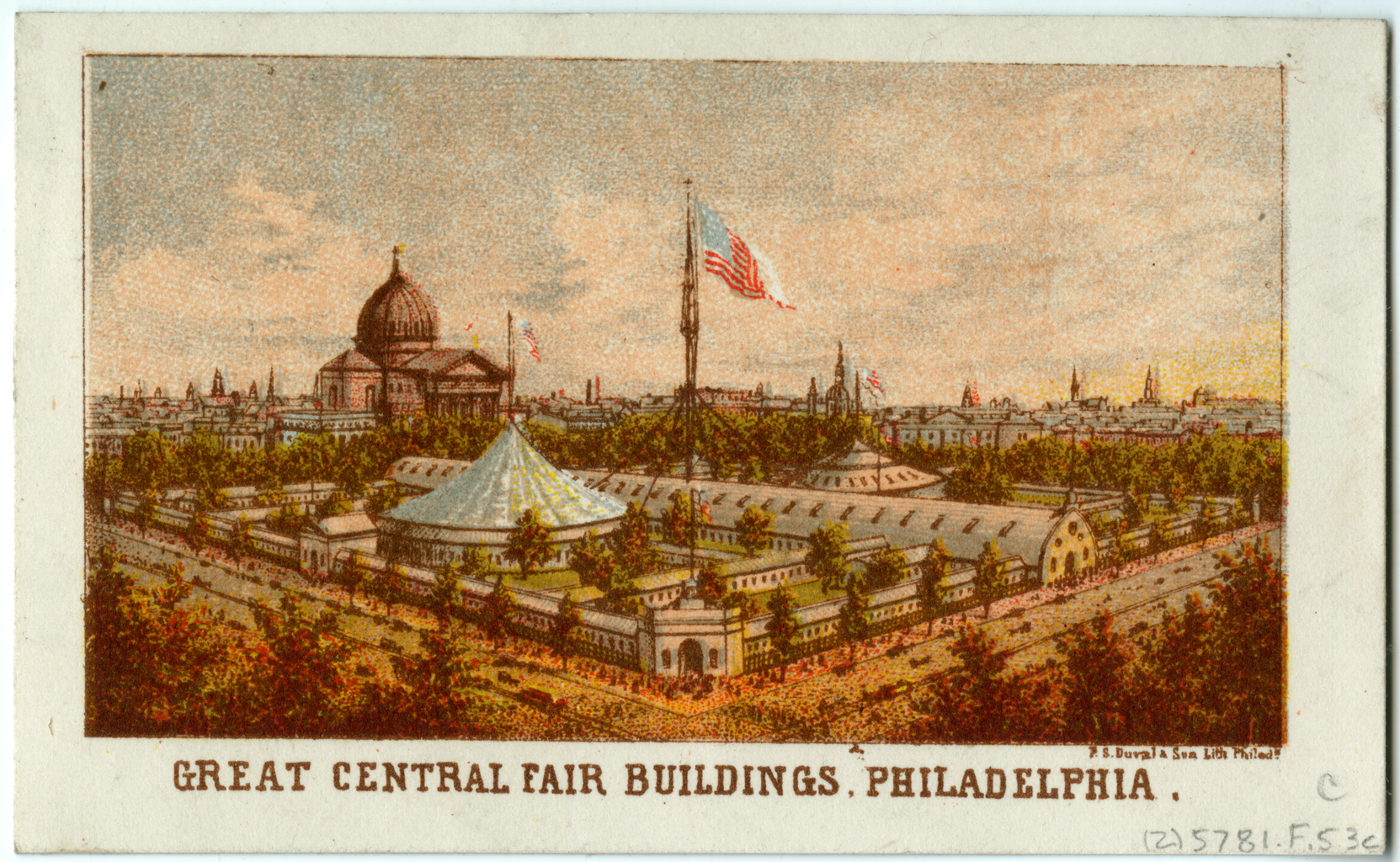 Great Central Fair Buildings, Philadelphia